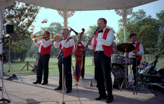 Jazz Band in Queens Park. The Queens Park festival saw Brian White's Magna Jazz Band entertaining once more in the park. The leader, Brian White, plays clarinet, nearest to the camera.